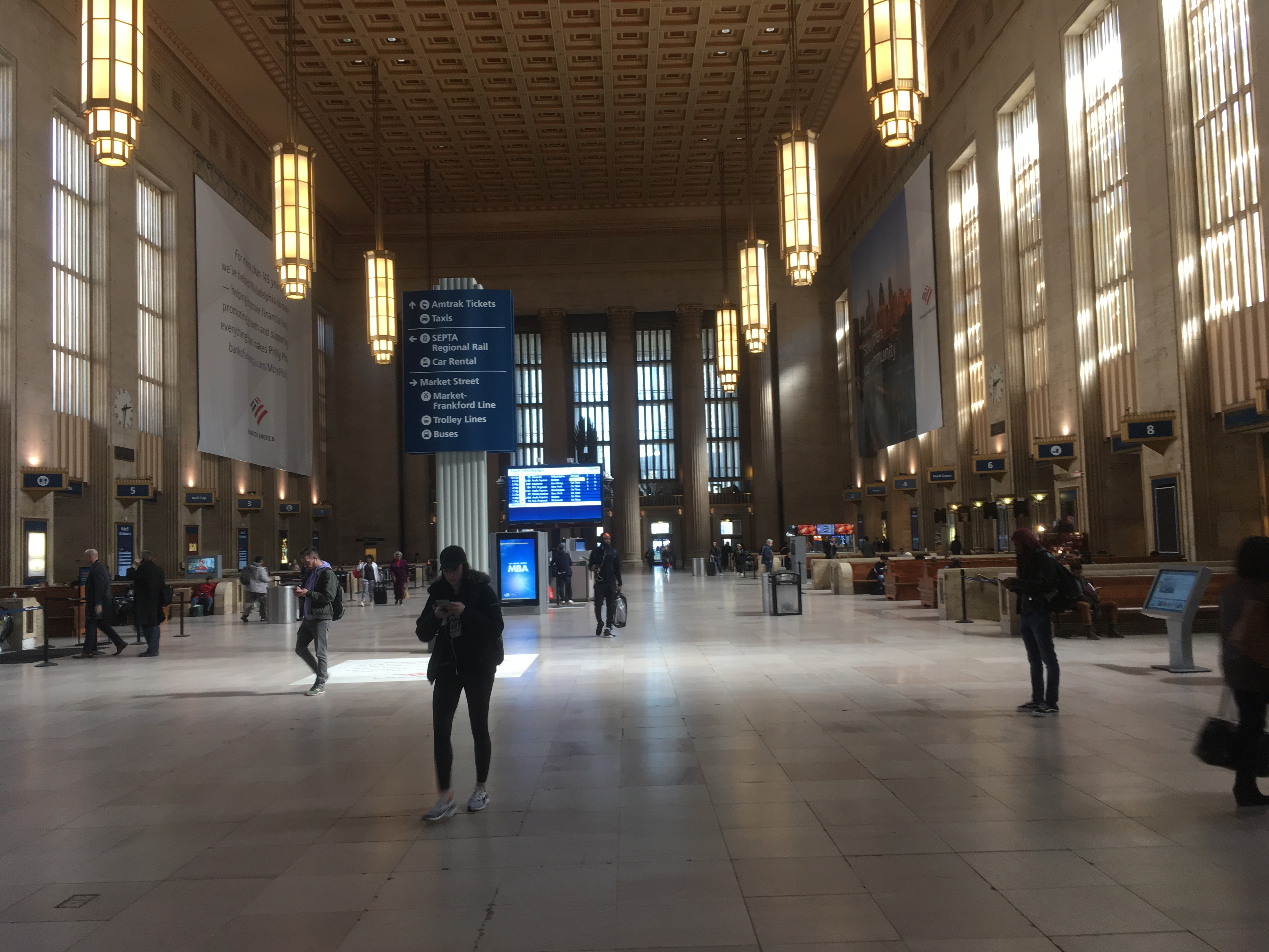 The concourse of the 30th Street Station serving Amtrak, SEPTA, and NJ Transit trains in Philadelphia, Pennsylvania